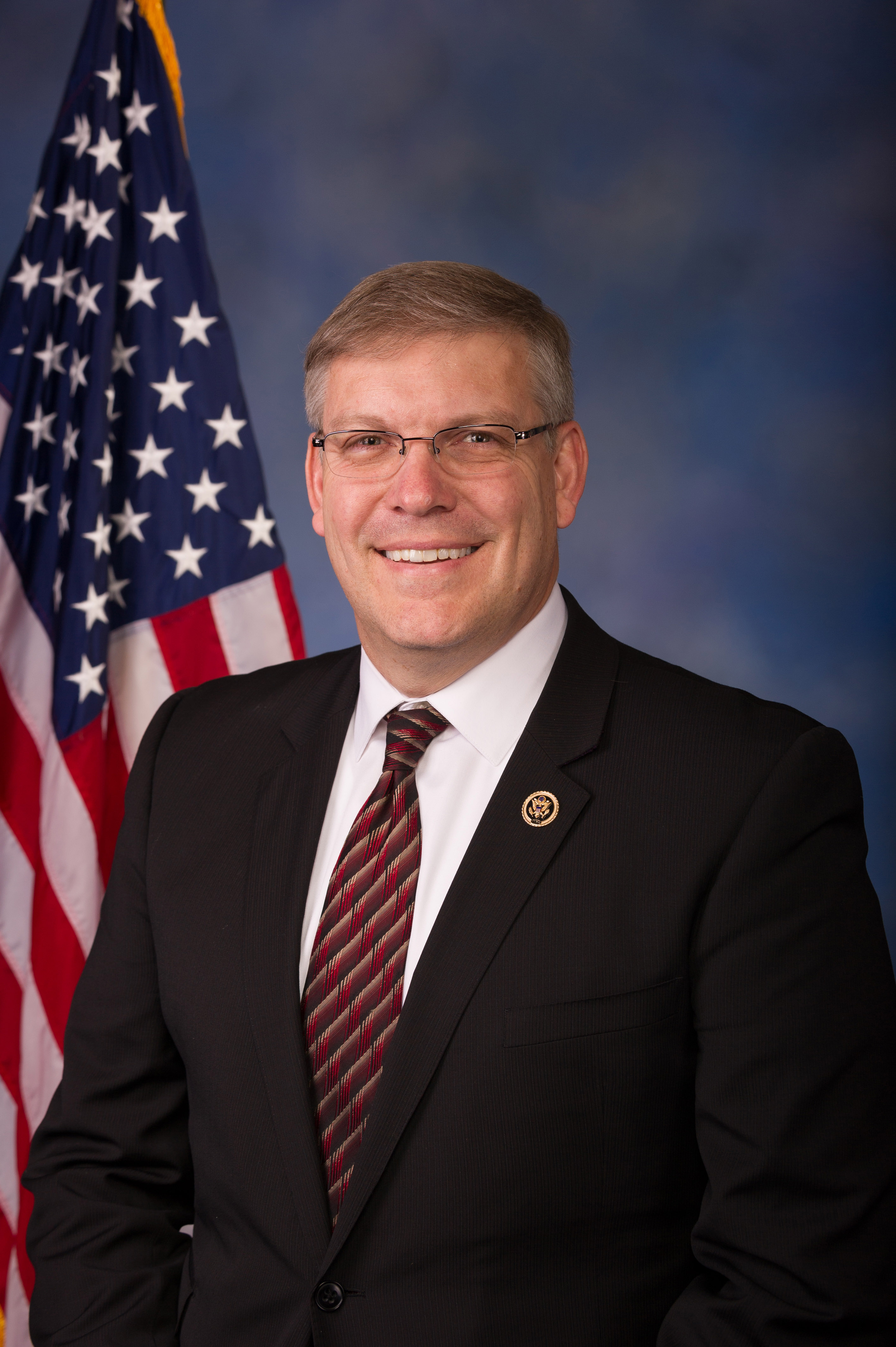 Barry Loudermilk official photo 2